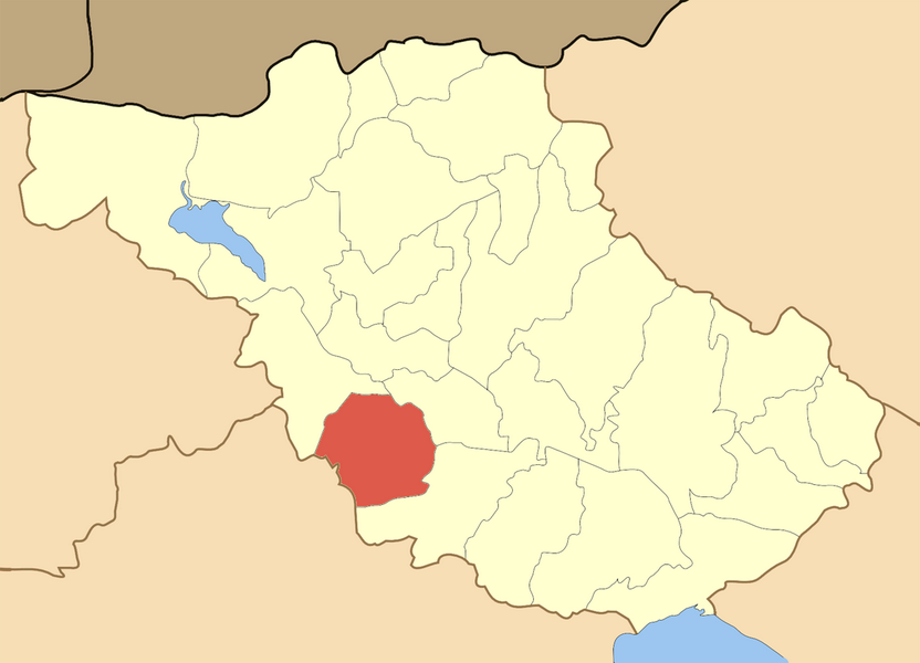 Locator map of Visaltias municipality in Serres perfecture in Greece.